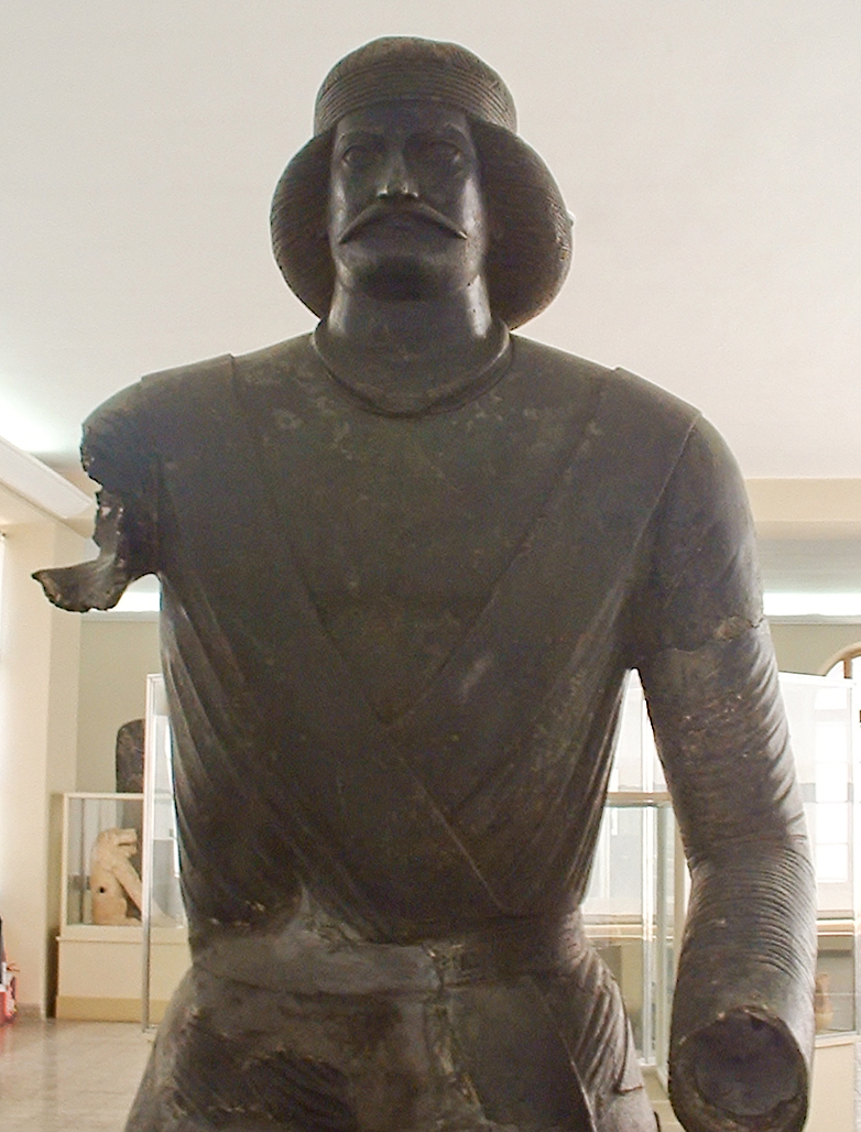 A bronze statue of a Parthian nobleman from the sanctuary at Shami in Elymais (modern-day Khūzestān Province, Iran, along the Persian Gulf), now located at the National Museum of Iran. Information presented here found on page 133 of Brosius, Maria. (2006). The Persians: An Introduction. London & New York: Routledge. ISBN 0-415-32089-5 (hbk). Photo taken by --Aytakin 01:16, 8 December 2005 (UTC).